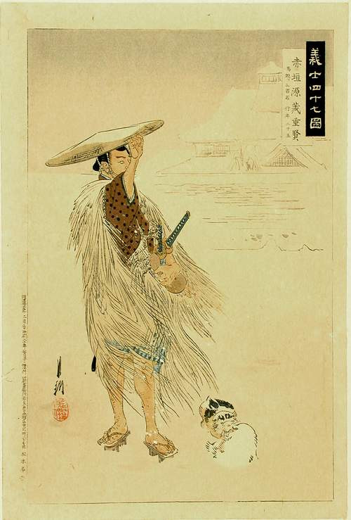 Ronin are masterless samurai. Chushingura is the true story of 47 samurai who became masterless in 1701, after their lord had been forced to commit ritual suicide (seppuku) for assaulting a court official who had insulted him. They avenged him by killing the court official after patiently planning for over a year. They were themselves then forced to commit seppuku